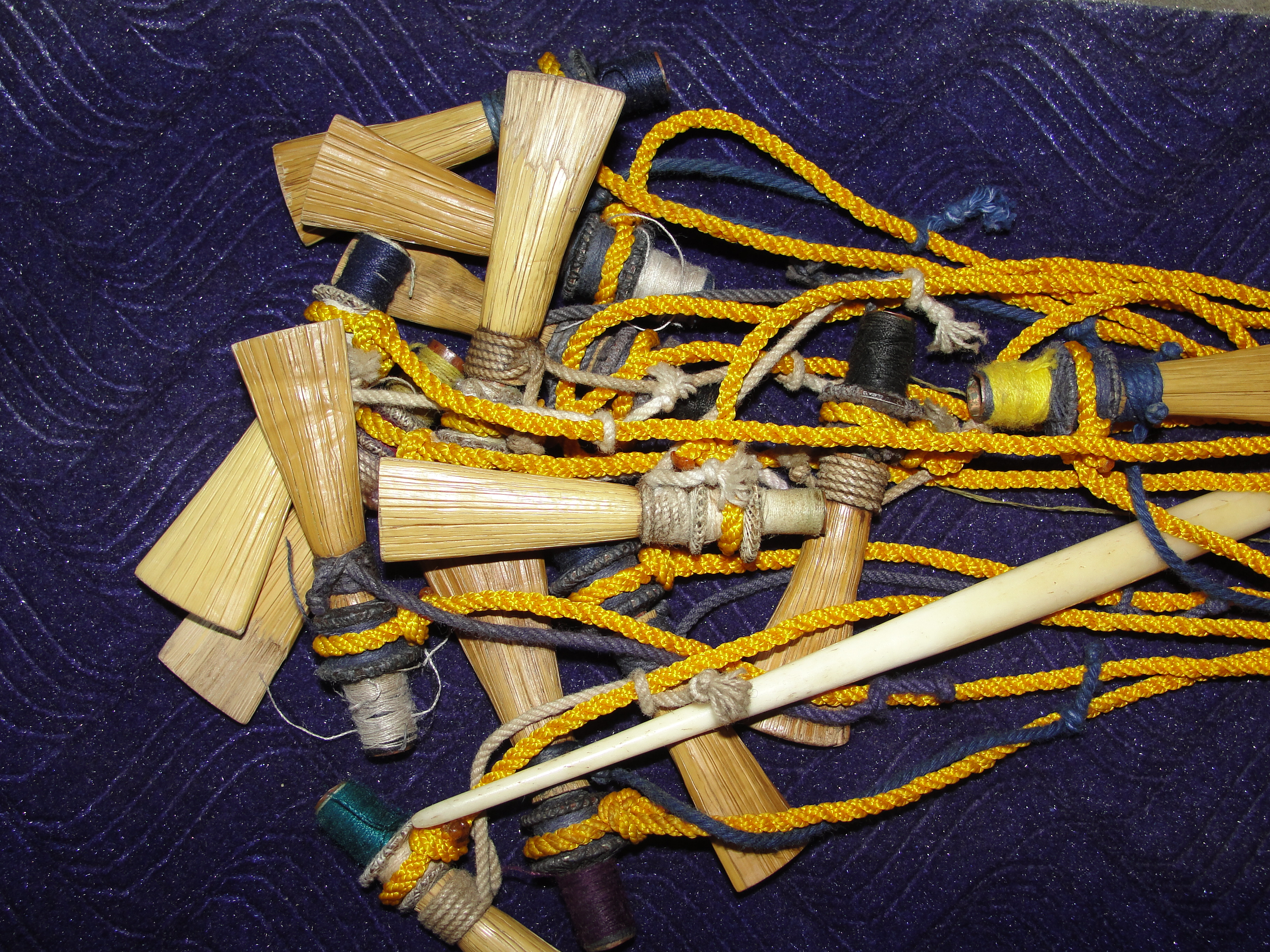 Seevali is a main part of Nataswaram. Nadaswaram is a traditional musical instrument of the Tamils.